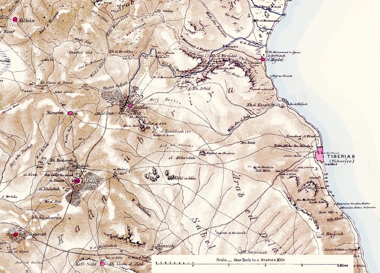 Portion of map produced by the Survey of Western Palestine, first published in 1880 by the Committee of the Palestine Exploration Fund. The editor, Walter Besant, died in 1901. This portion comes from Sheet 6.